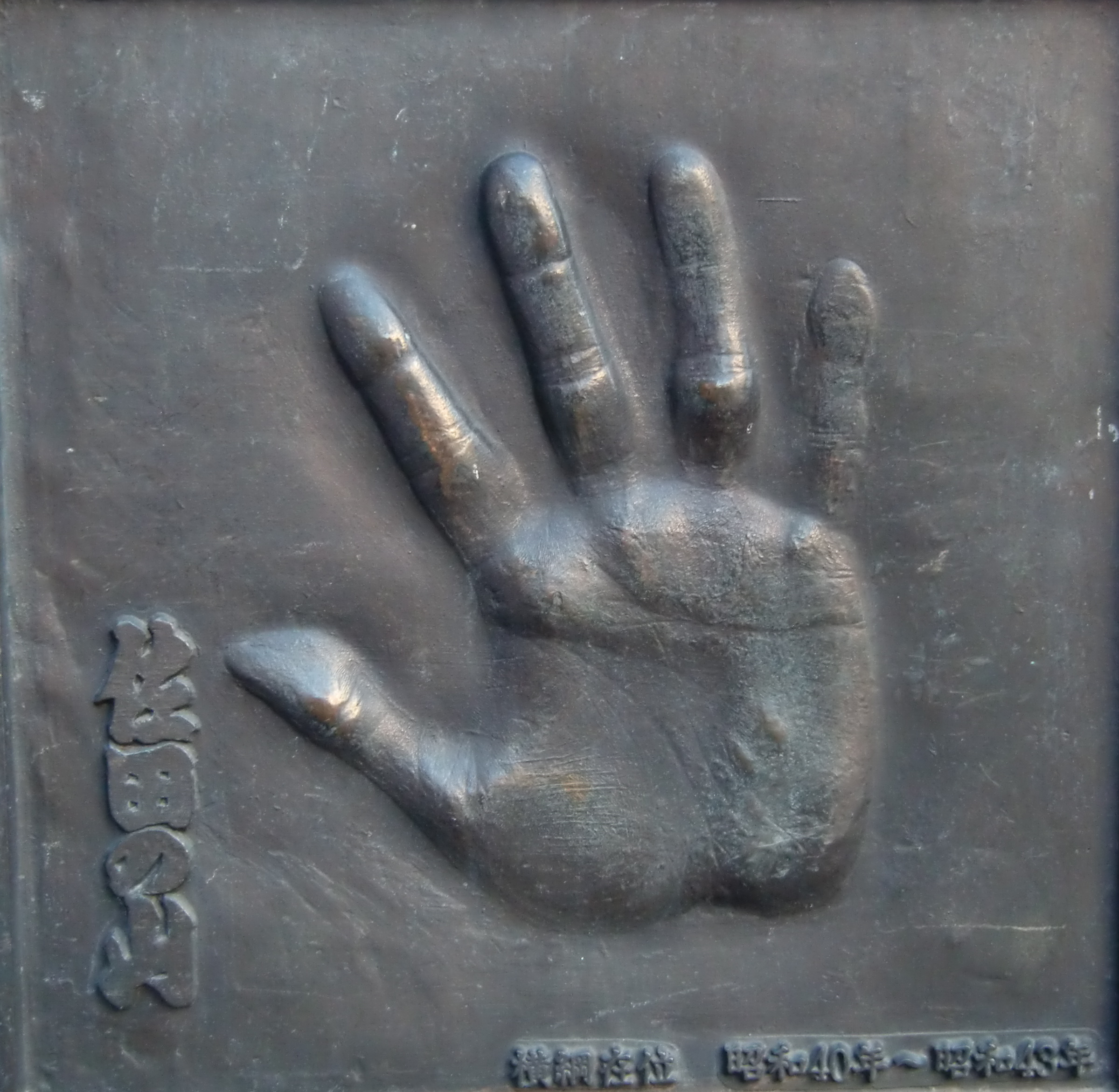 handprint of wrestler on a public monument in Ryogoku Japan